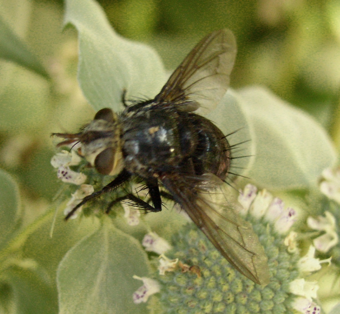 Tachinid fly, Archytas metallicus, on mountain mint. Churchville, Bucks County, Pennsylvania, USA.